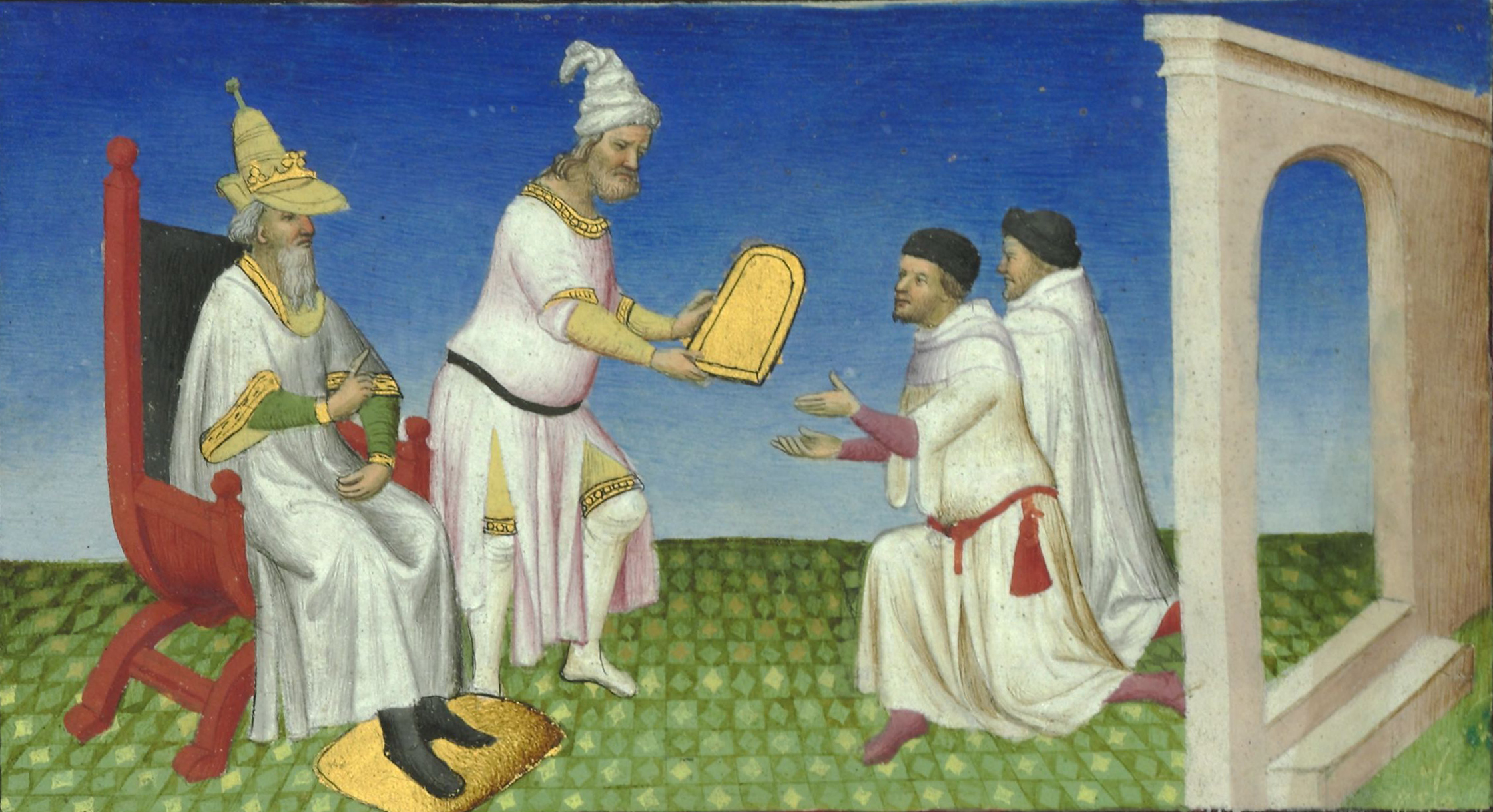 Kublai Khan giving a gold laissez-passer to the Polo brothers. MS BNF français 2810 f. 3v